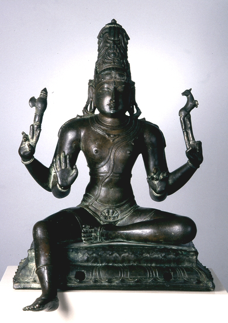 Here, Shiva is at ease. He was once accompanied by a figure of his spouse Uma, who was seated on a similar pedestal. The antelope symbolizes (among other things) that Shiva is the "Lord of Creatures."